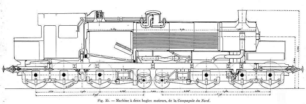 Drawing of Du Bousquet articulated locomotive 031+130.